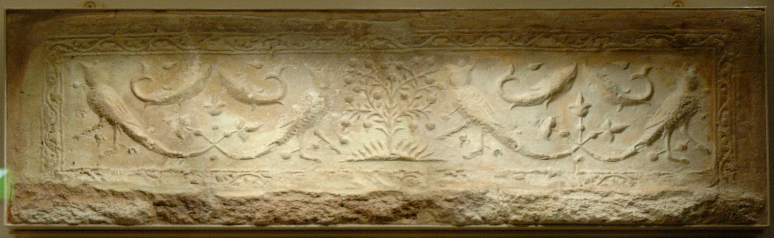 Tile with Harpies decoration. Carved and painted plaster, 11th-12th century, Nishapur. Metropolitan Museum of Art (MET 40.170.166).